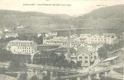 A view of the Pernod Fils factory, 1905.